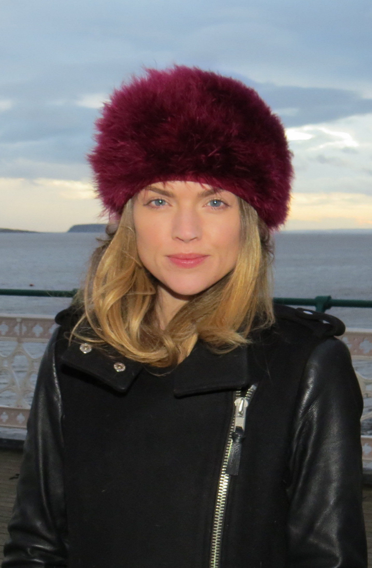 Erin Richards filming on the pier in her home town of Penarth, Wales in January 2016 for an S4C programme "3 Lle" (Three Places). In the background are the islands of Steepholm and Flatholm